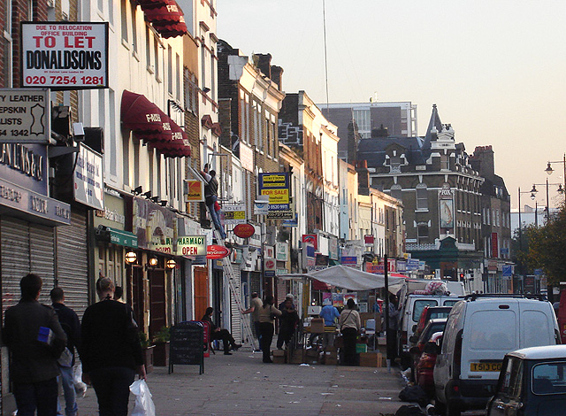 Kingsland Waste, Kingsland Road, Hackney, London. 15 October 2005. Photographer: Fin Fahey